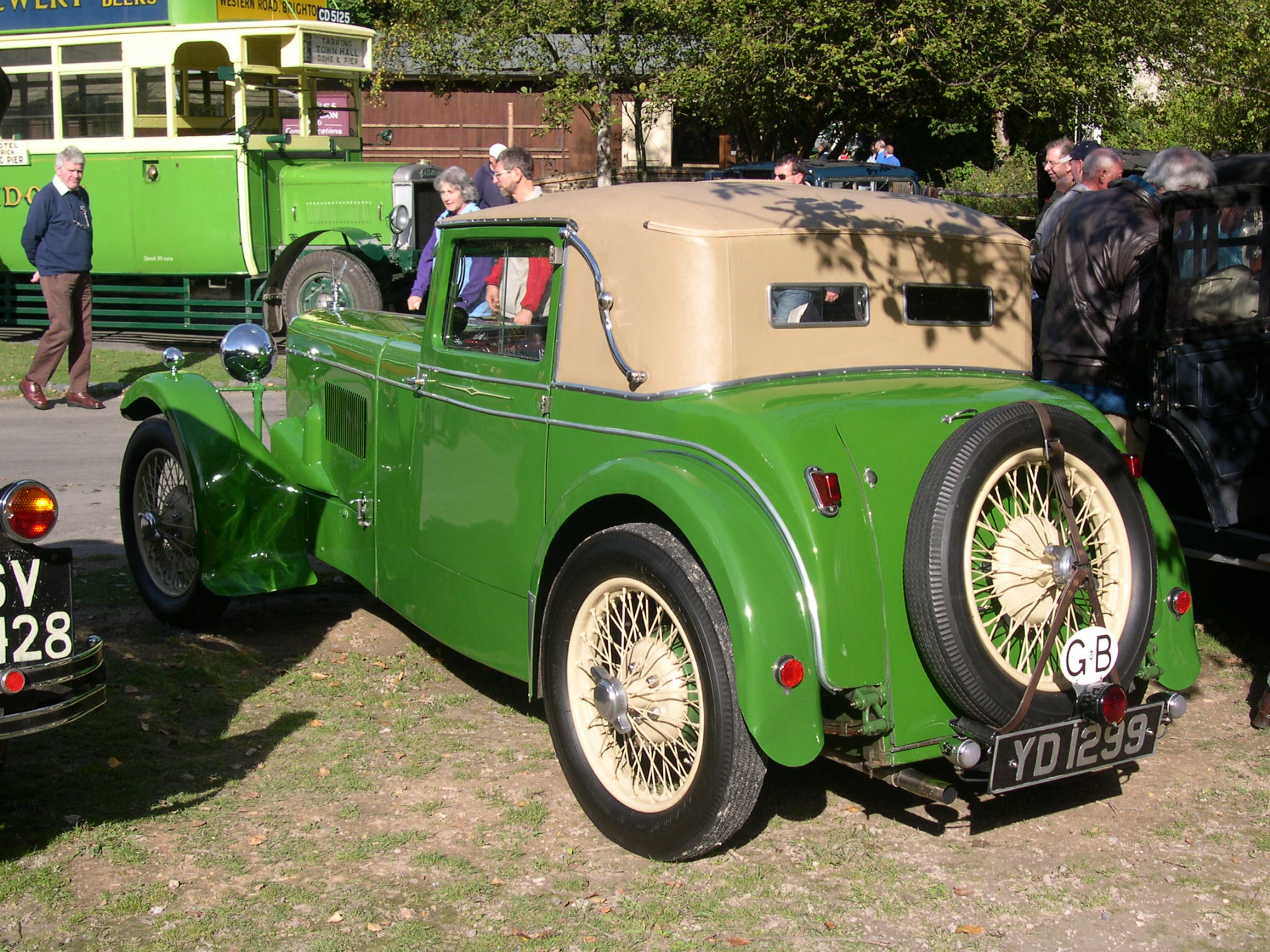 1930 Avon Standard Sixteen Swan coupé 2005 - Amberley Autumn Vintage Vehicle Show Chassis no. 115382 Engine no. A200006 info